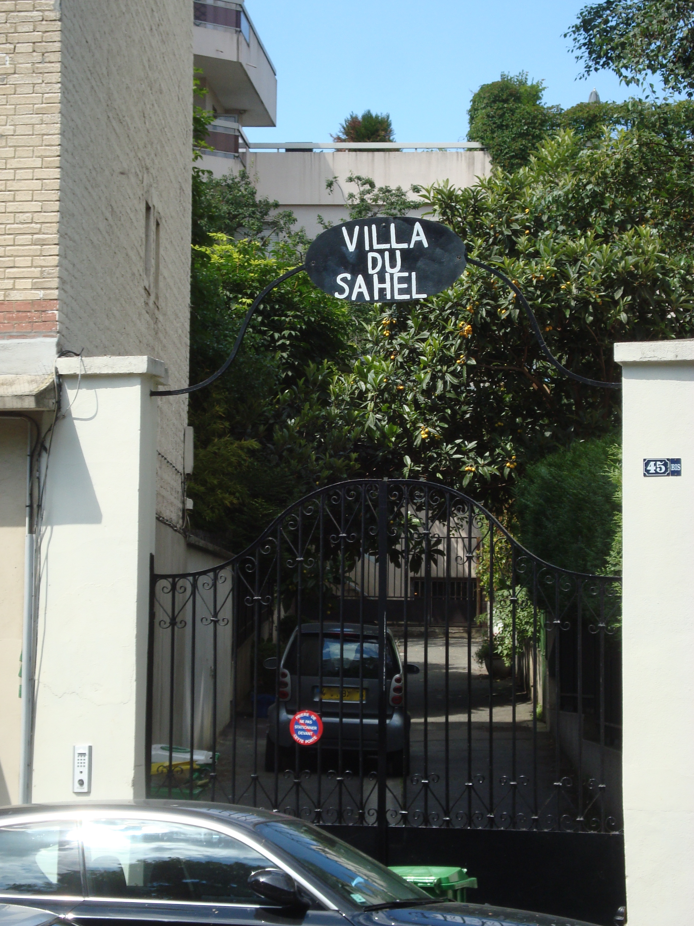 Entrance of the villa du Sahel at 45bis rue du Sahel in Paris